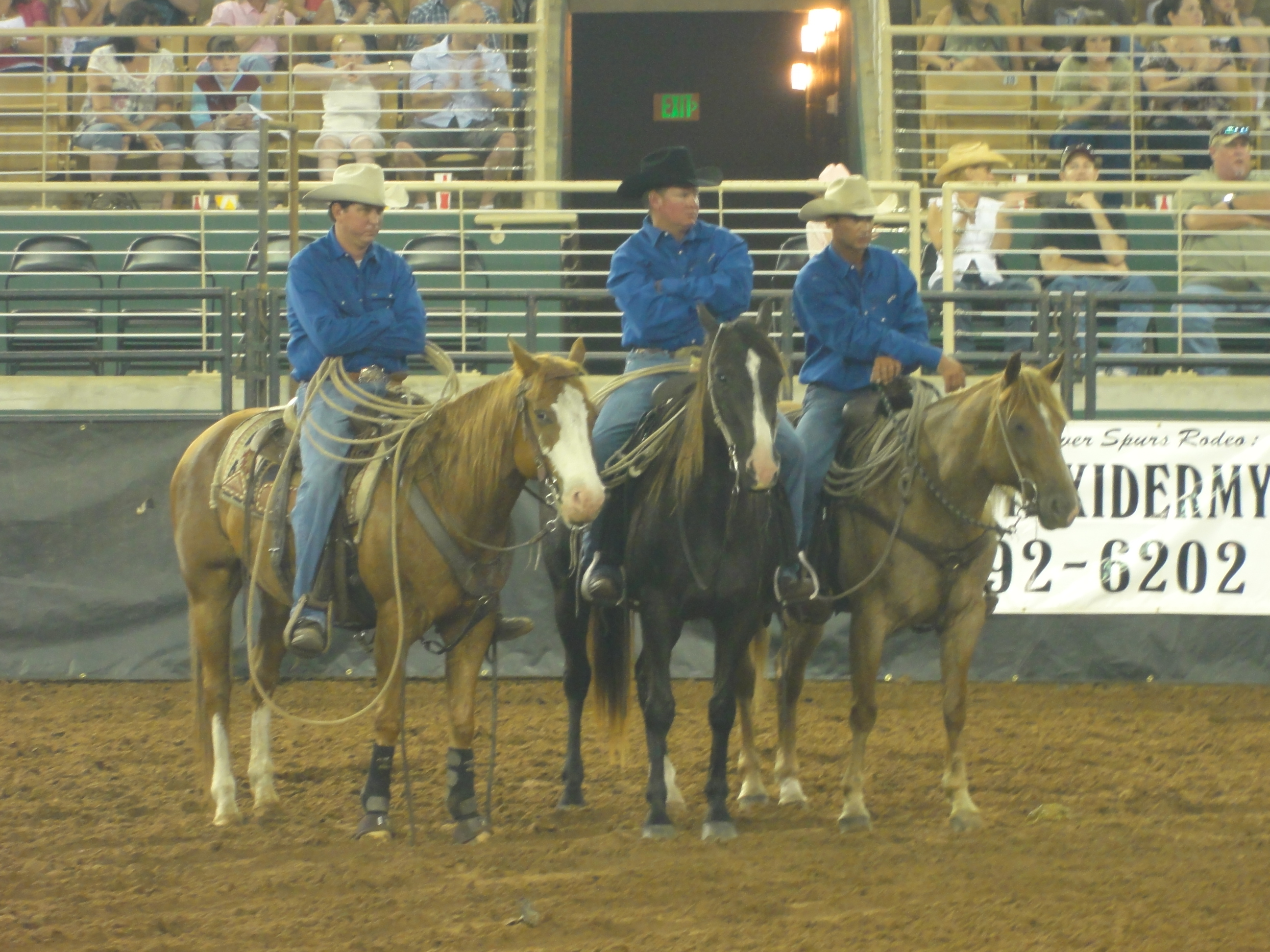 Silver Spurs Rodeo, taken at Silver Spurs Arena, Kissimmee, Florida.